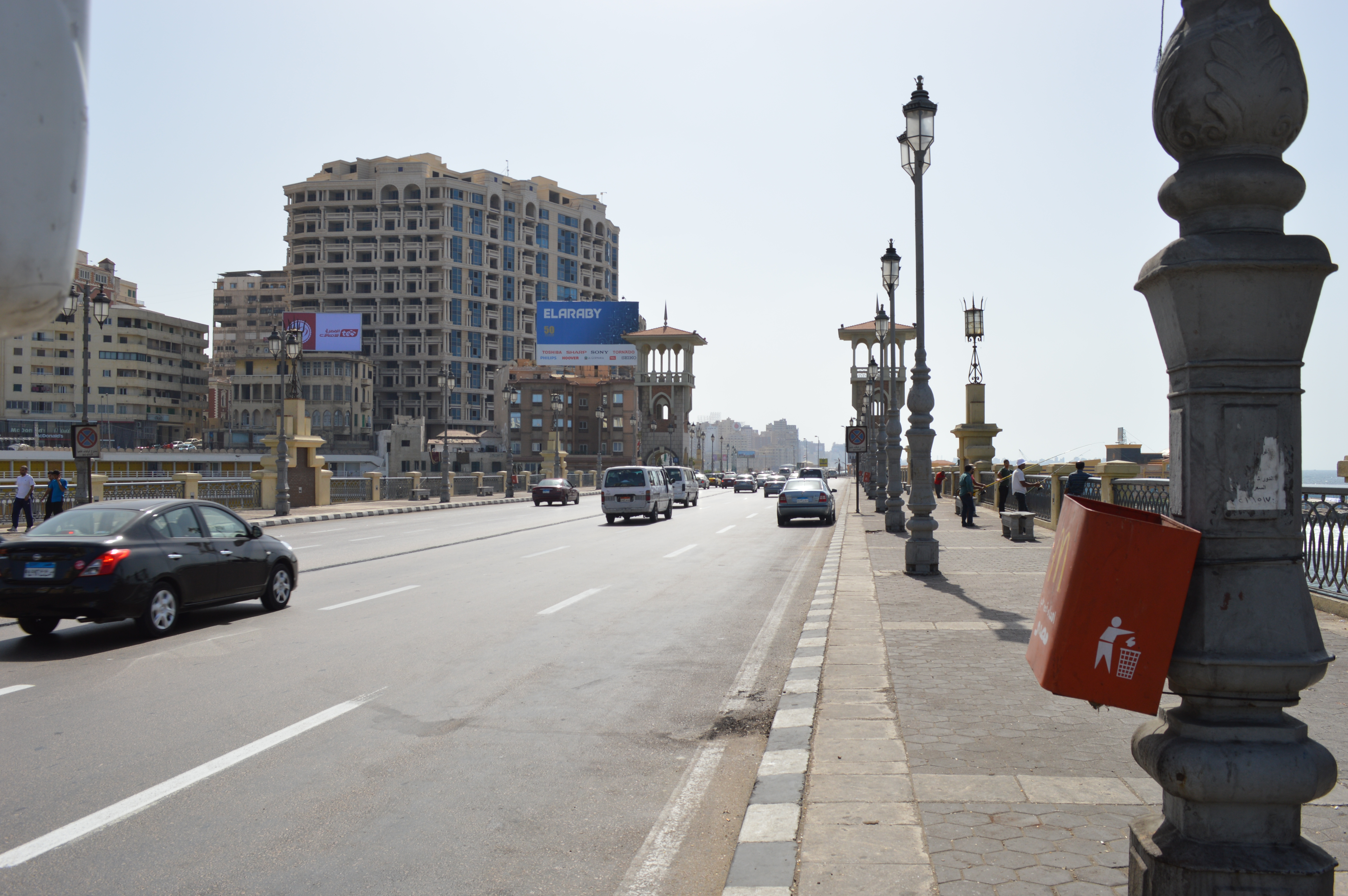 General view